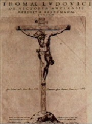 Title page from 1585 print of Tomás Luis de Victoria's Officium Hebdomadae Sanctae.